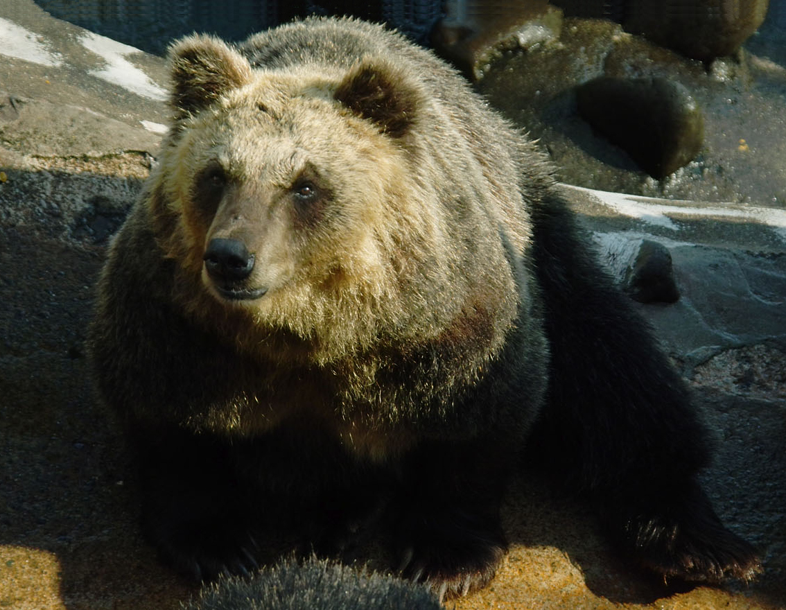 Hokkaido Brown Bear in Noboribetsu Kuma Bokujo Park, Noboribetsu, Hokkaido, Japan